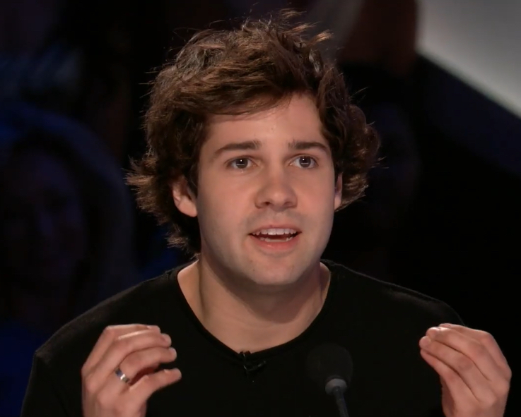 David Dobrik judging on America's Most Musical Family in 2019